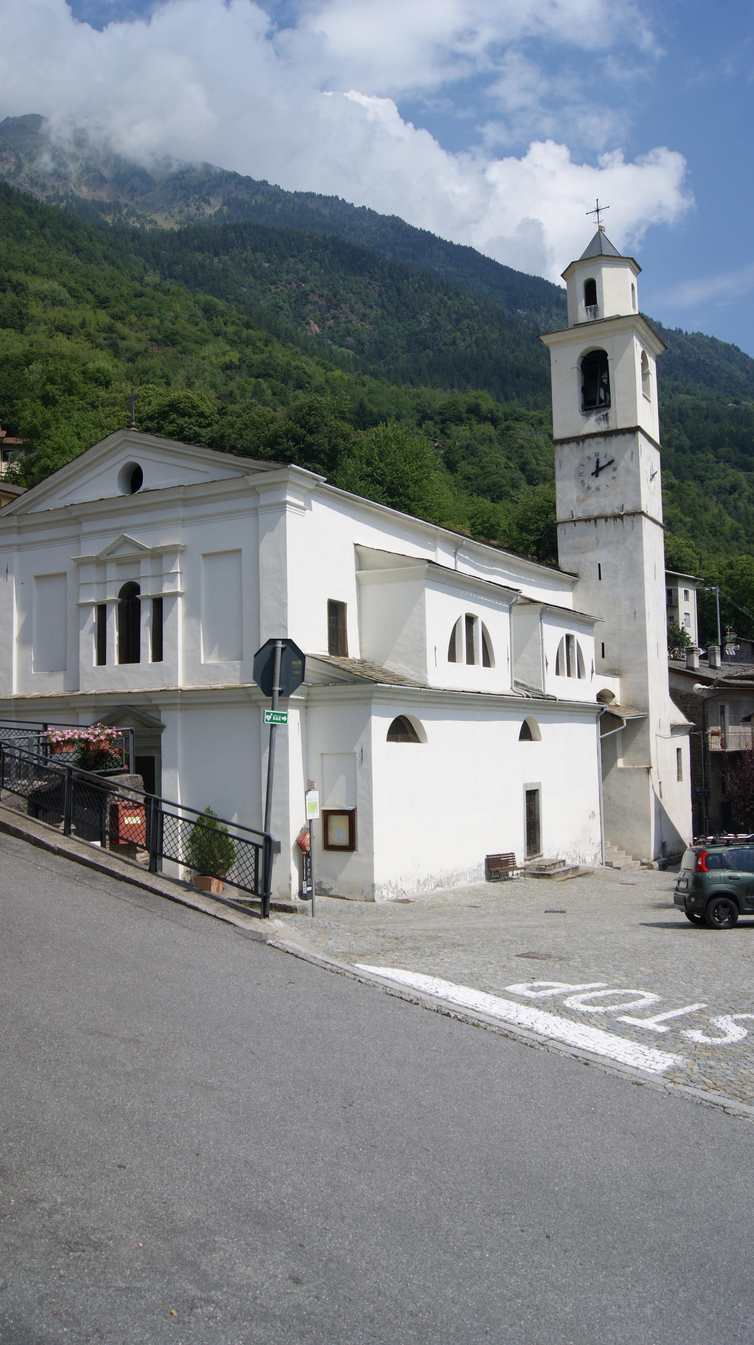 Baruffini, part of Tirano in Italy. Church of San Pietro Martire in Baruffini, part of Tirano in Italy.